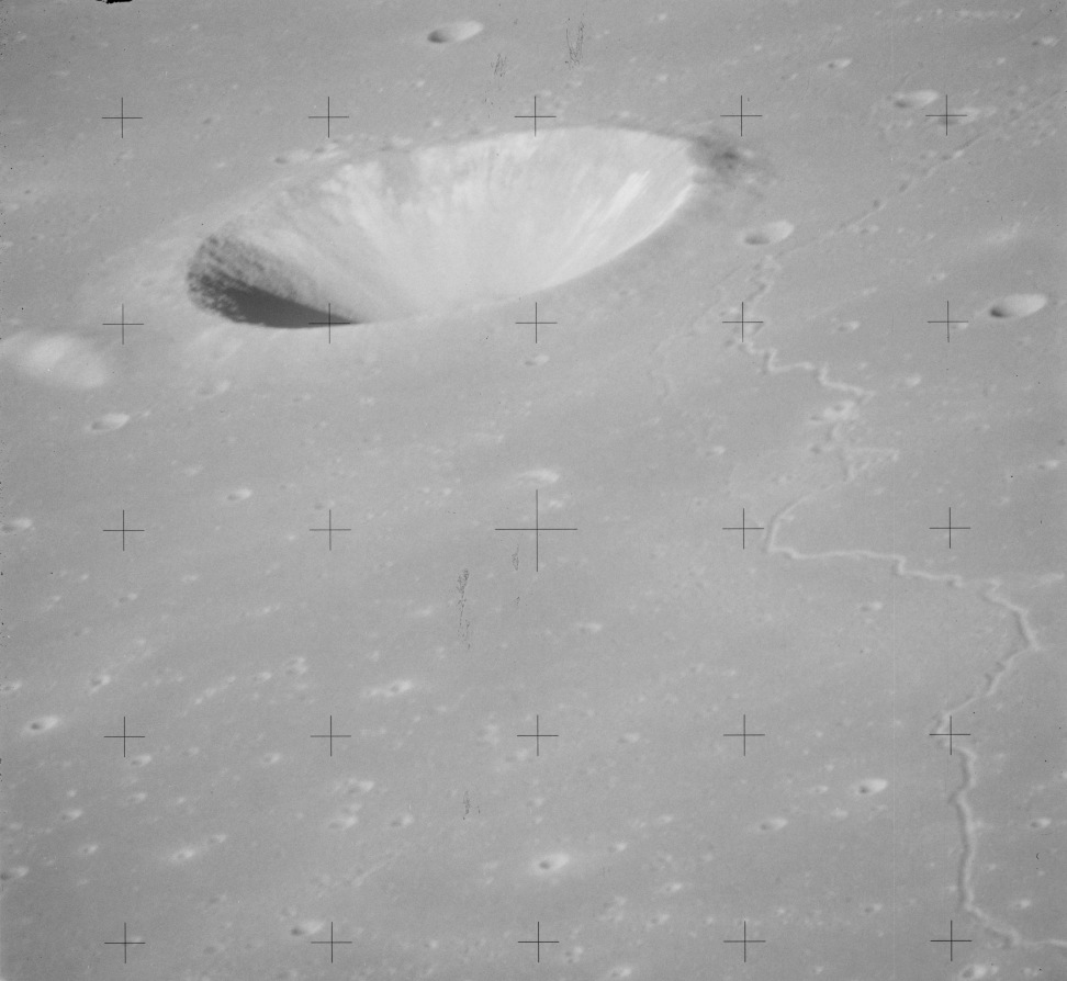 Oblique view of Brayley crater and part of Rima Brayley, Mare Imbrium, the moon.